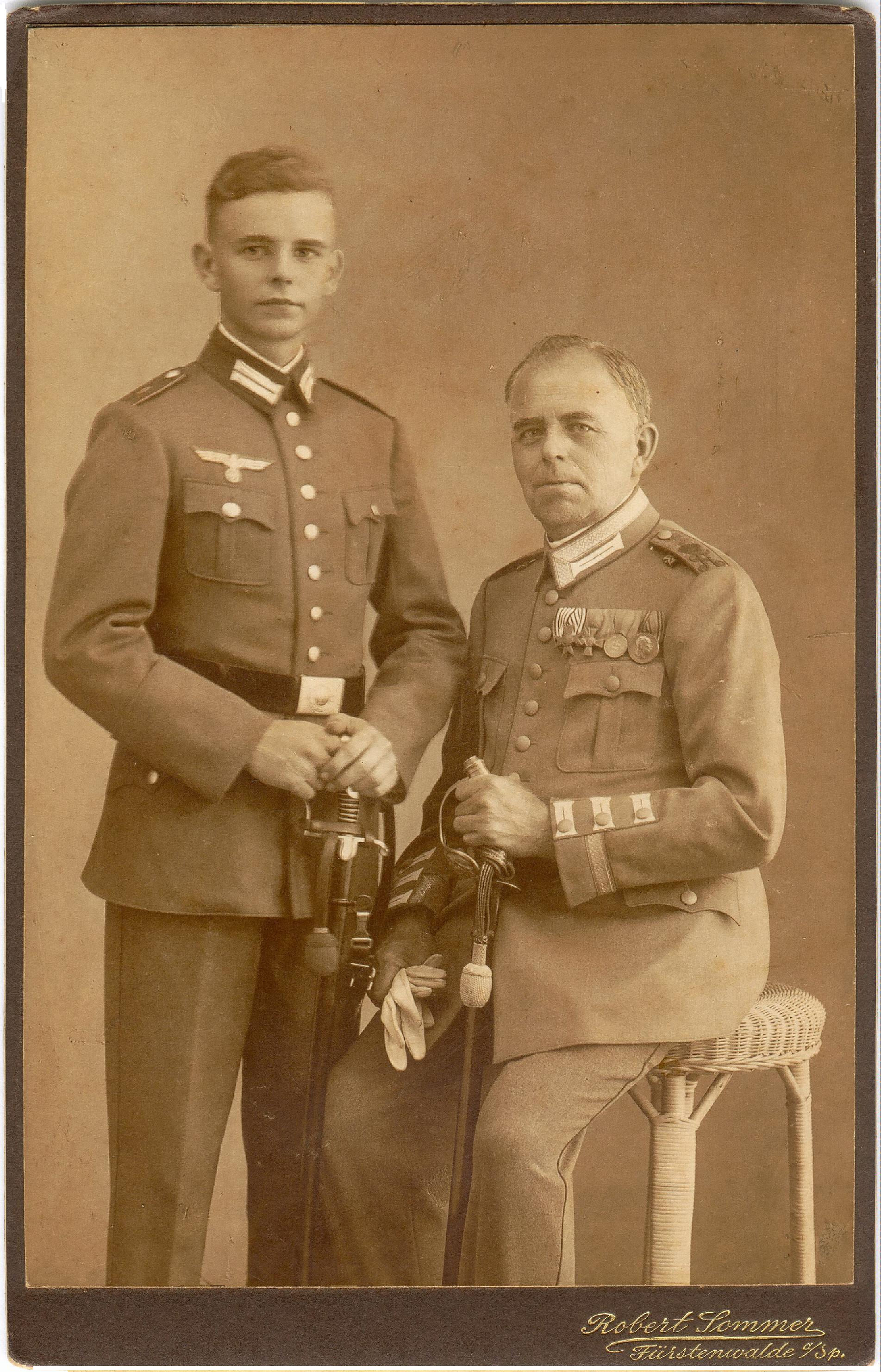 German Portepée NCOs left: Unteroffizier Wehrmacht (Heer) ca. 1933 right: Unteroffizier wearing the uniform of the Kaiser Franz Garde-Grenadier Regiment Nr.2.